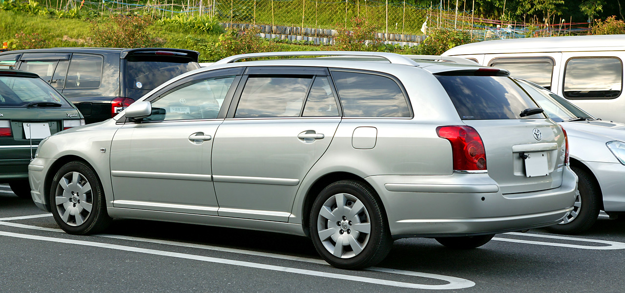 Toyota Avensis Wagon